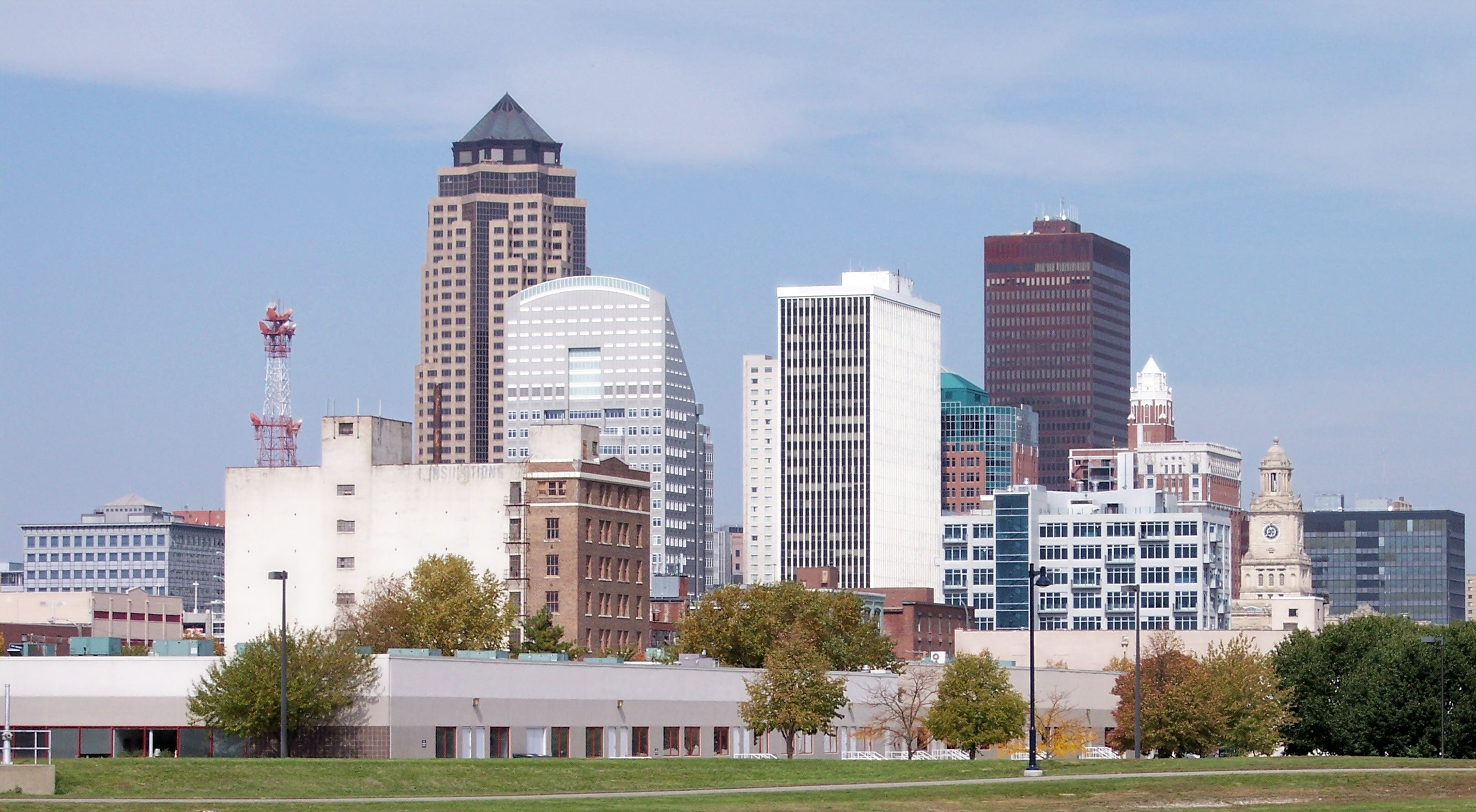 Downtown Des Moines, Iowa as viewed from the south. Photographed from the south bank of the Raccoon River.